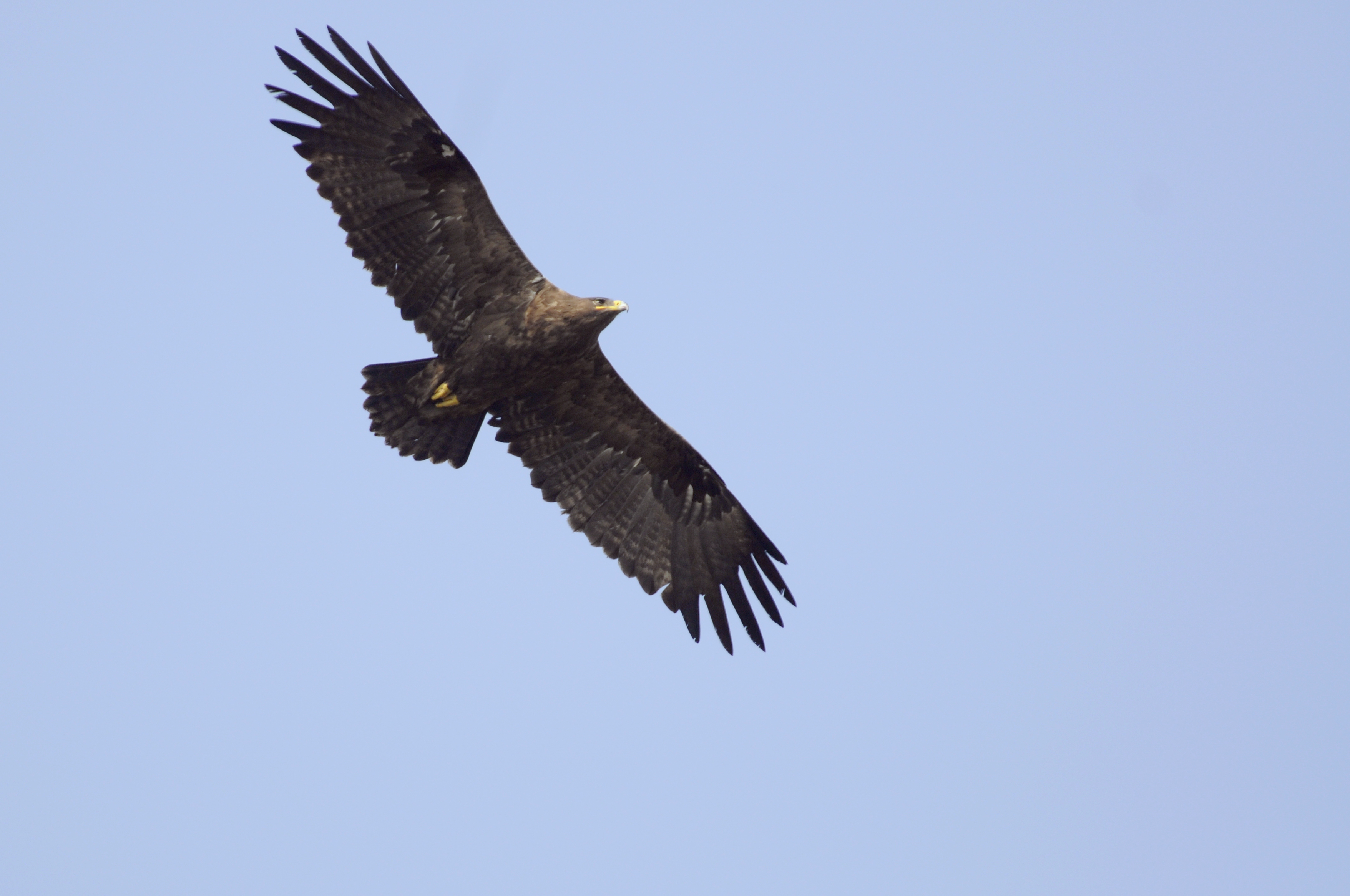 Steppe Eagle (Aquila nipalensis) in the Aravalli Biodiversity Park Gurgaon, Haryana, India